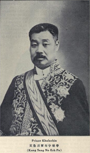 Gong-Sang-Nuo-Er-Bu (Kung-Sang-No-Erh-Pu, Prince Khalachin) (1871 - 1931)